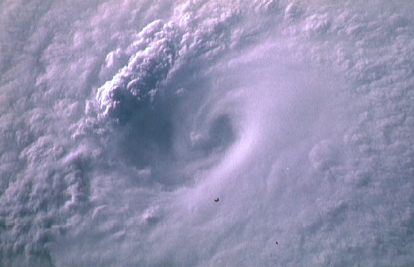 The eye of Hurricane Bonnie (1992) northeast of Bermuda as photographed by the STS-47 mission of Space Shuttle Endeavour on September 19, 1992 at 11:01 GMT.